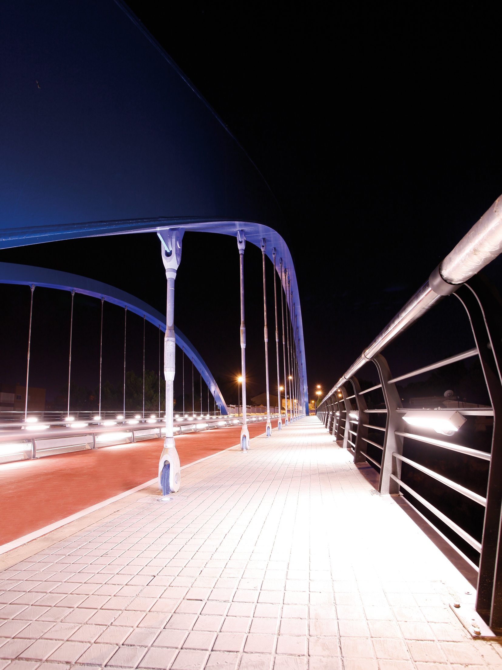 bridge